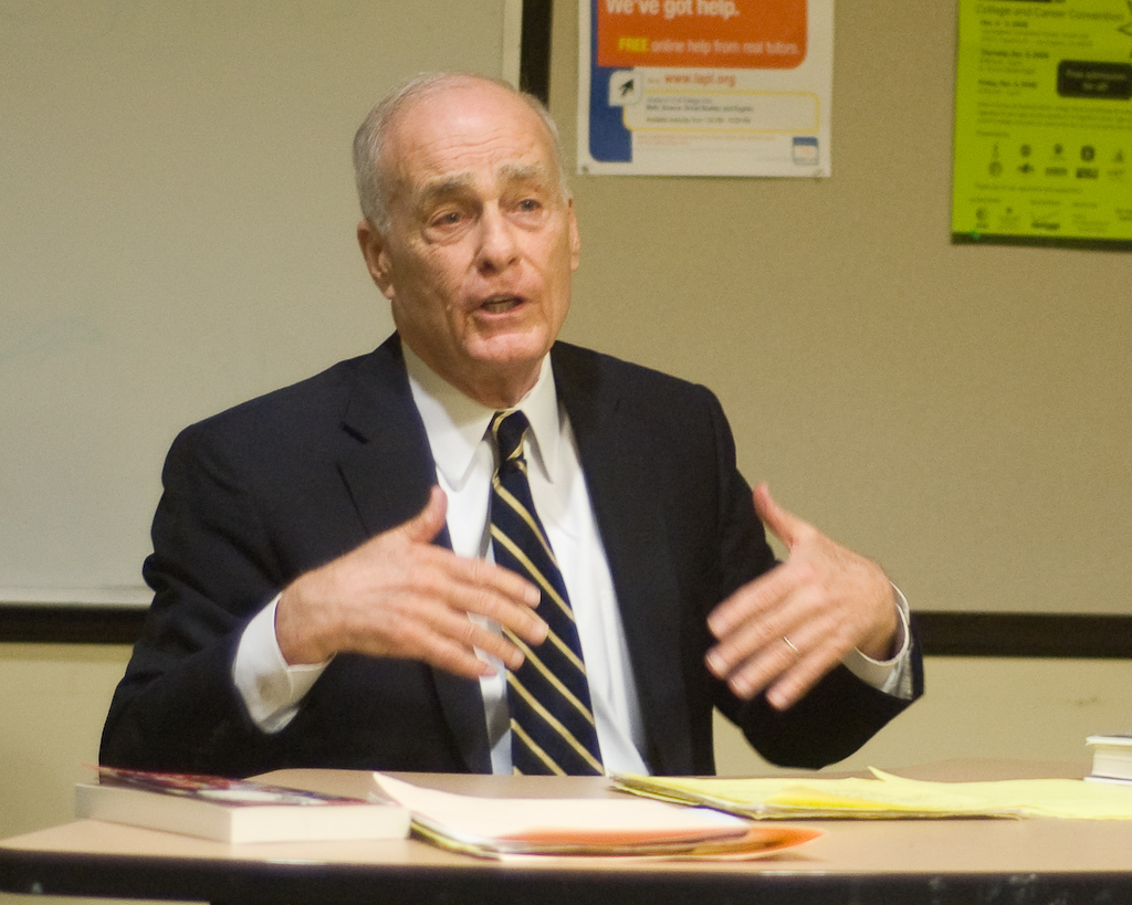 Vincent Bugliosi speaks on January 10, 2009 at the North Hollywood Regional Branch of the Los Angeles Public Library.